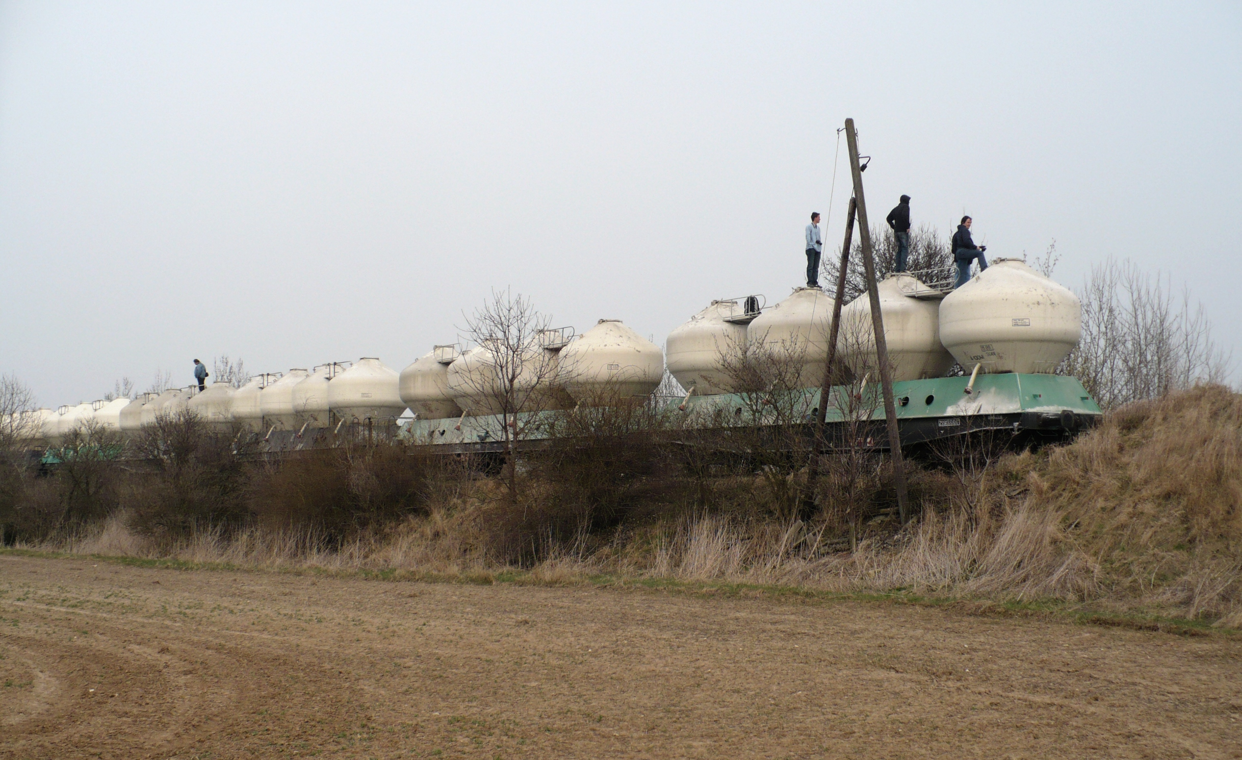 Aircraft spotters at Prague International Airport waiting for President Obama's plane to take off.